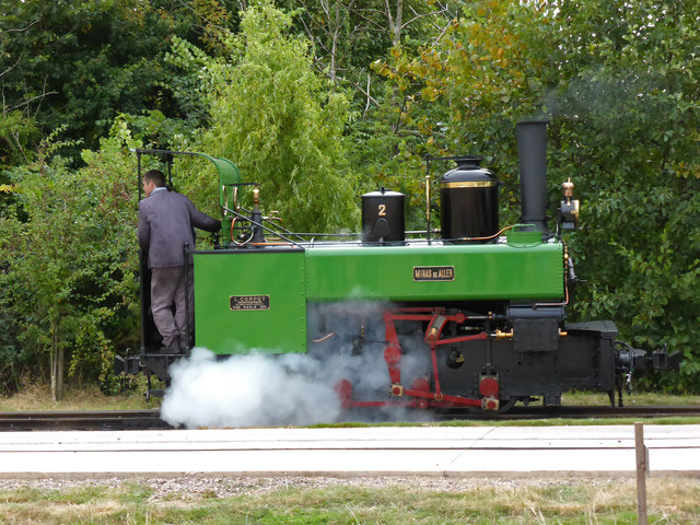 Statfold Barn Railway - Minas de Aller No. 2